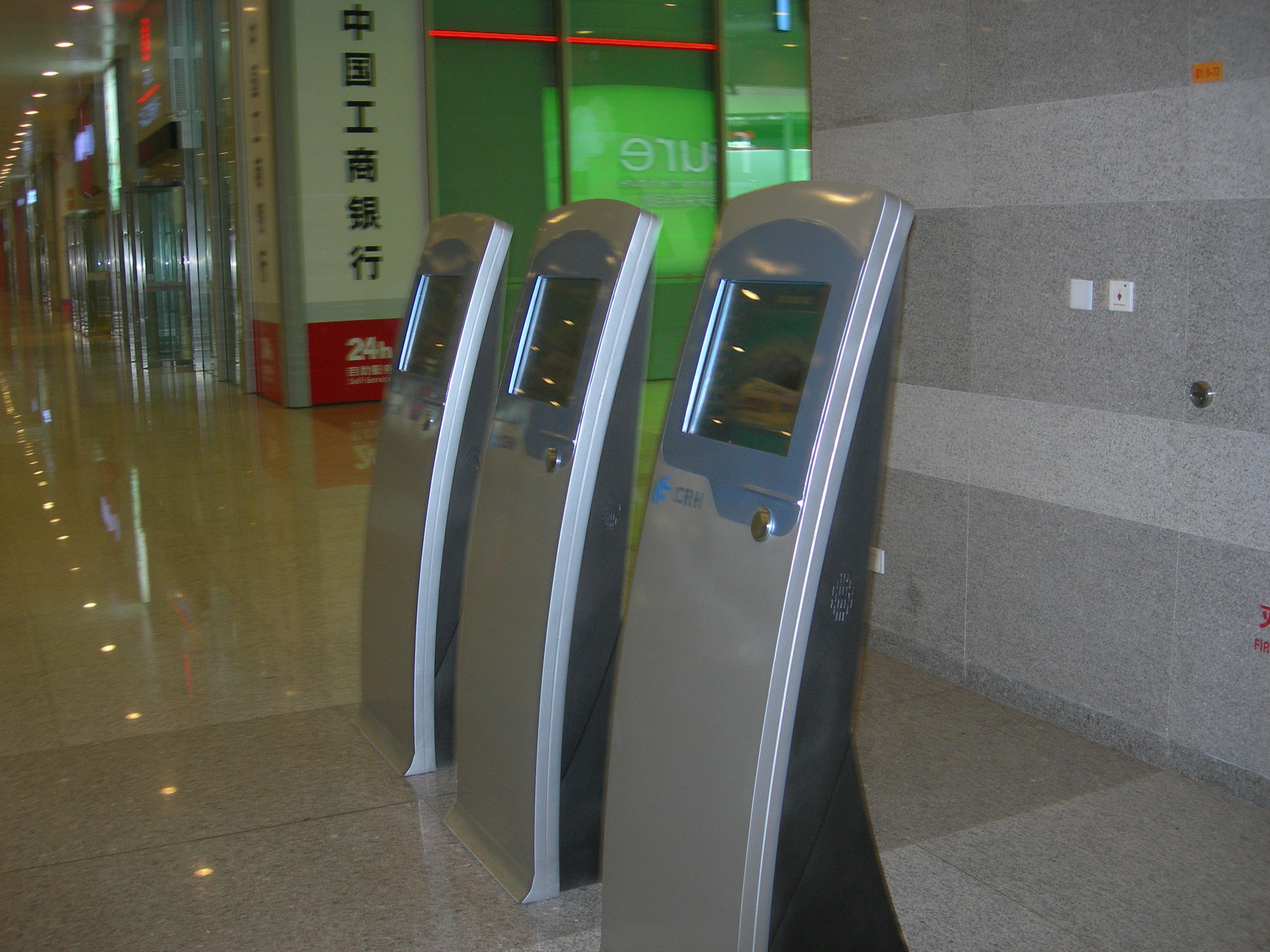 Counters for purchasing China Railways Highspeed tickets/service at Shanghai Hongqiao Railway Station